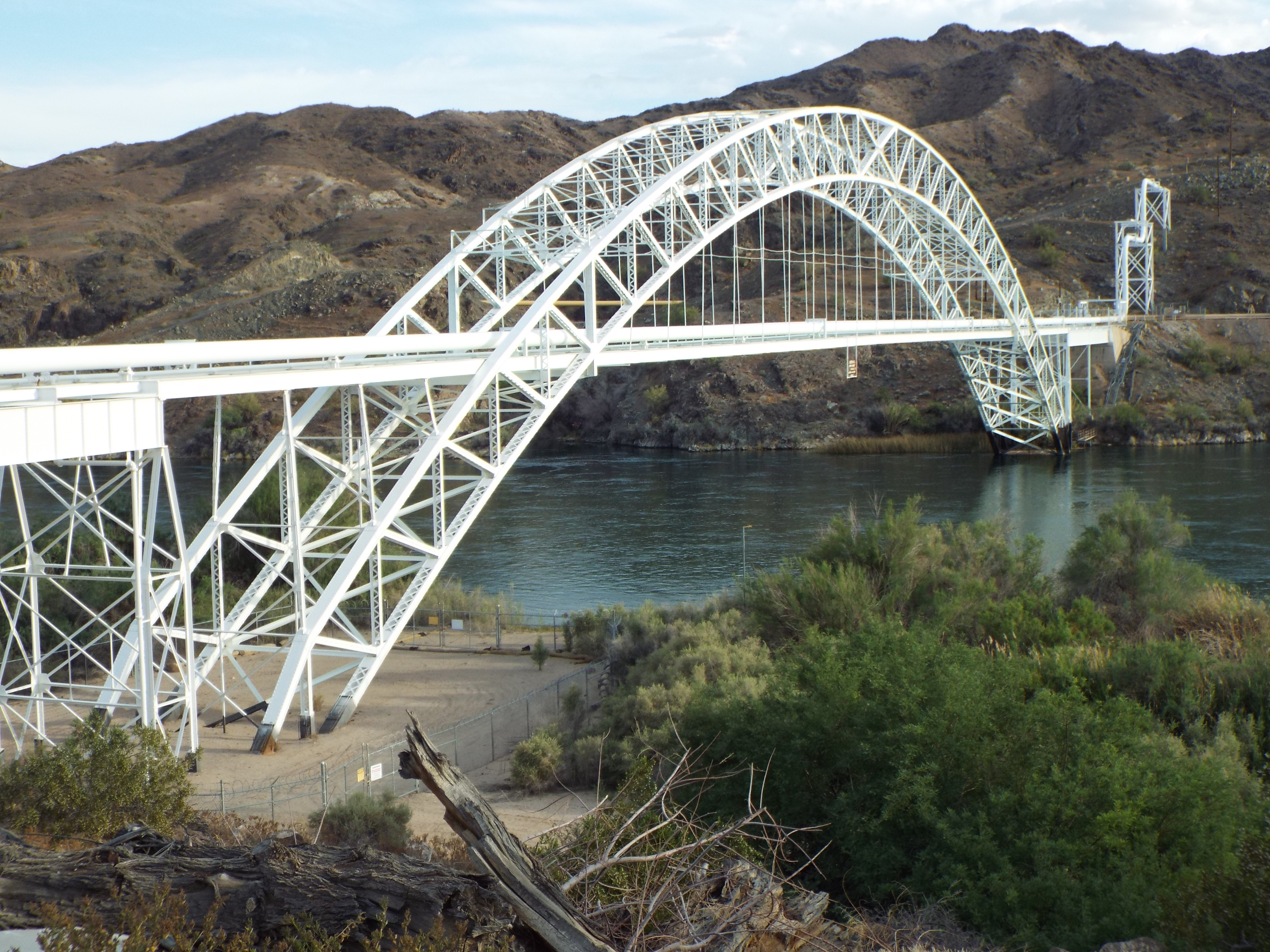 Historic NRHP Old Trails Bridge built in 1914 in Topock, Az